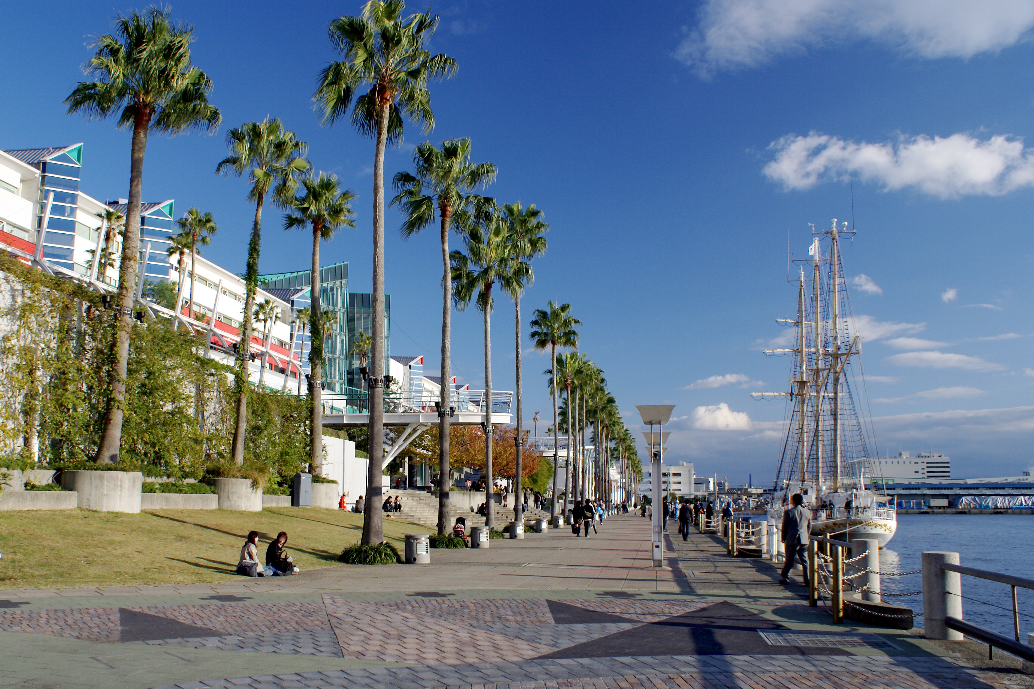 Asia and The Pacific Ocean Trade Center in Osaka, Osaka prefecture, Japan